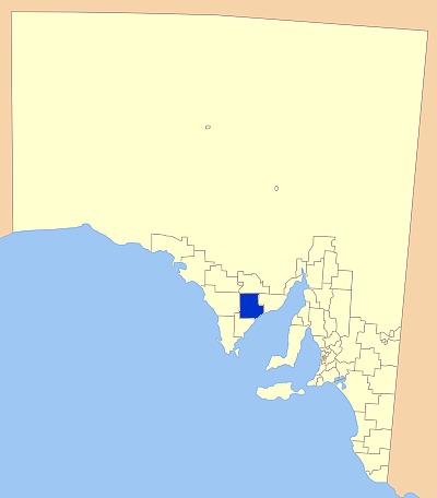 Modification of Astrokey44's original map found here: File:SA_LGA_blank.png Position of Coober pedy LGA